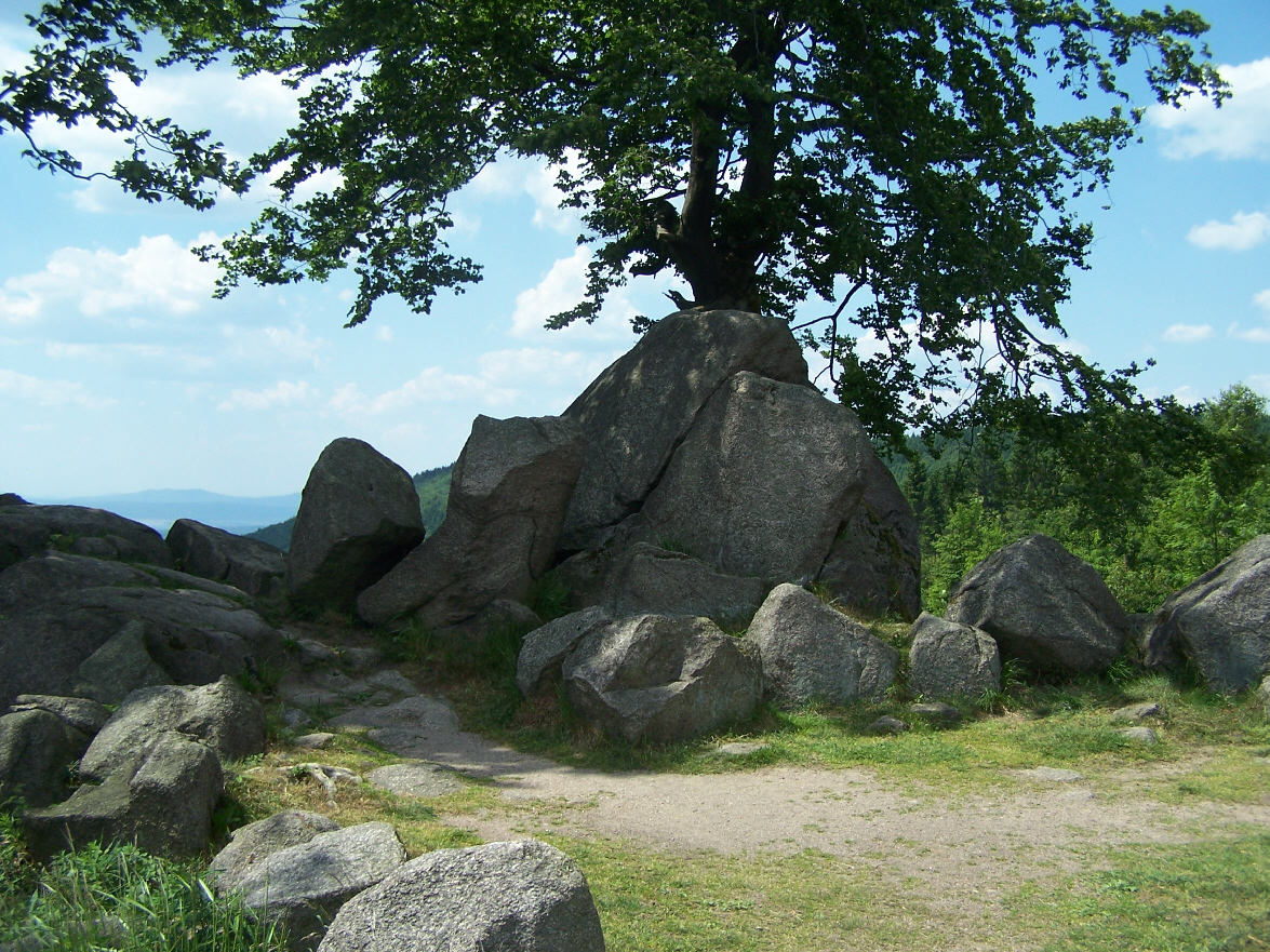 The Gloeckner rocks at the Rennsteig trail. The material is a granite variation, called Ruhlaer Granit (palaeozoic era).